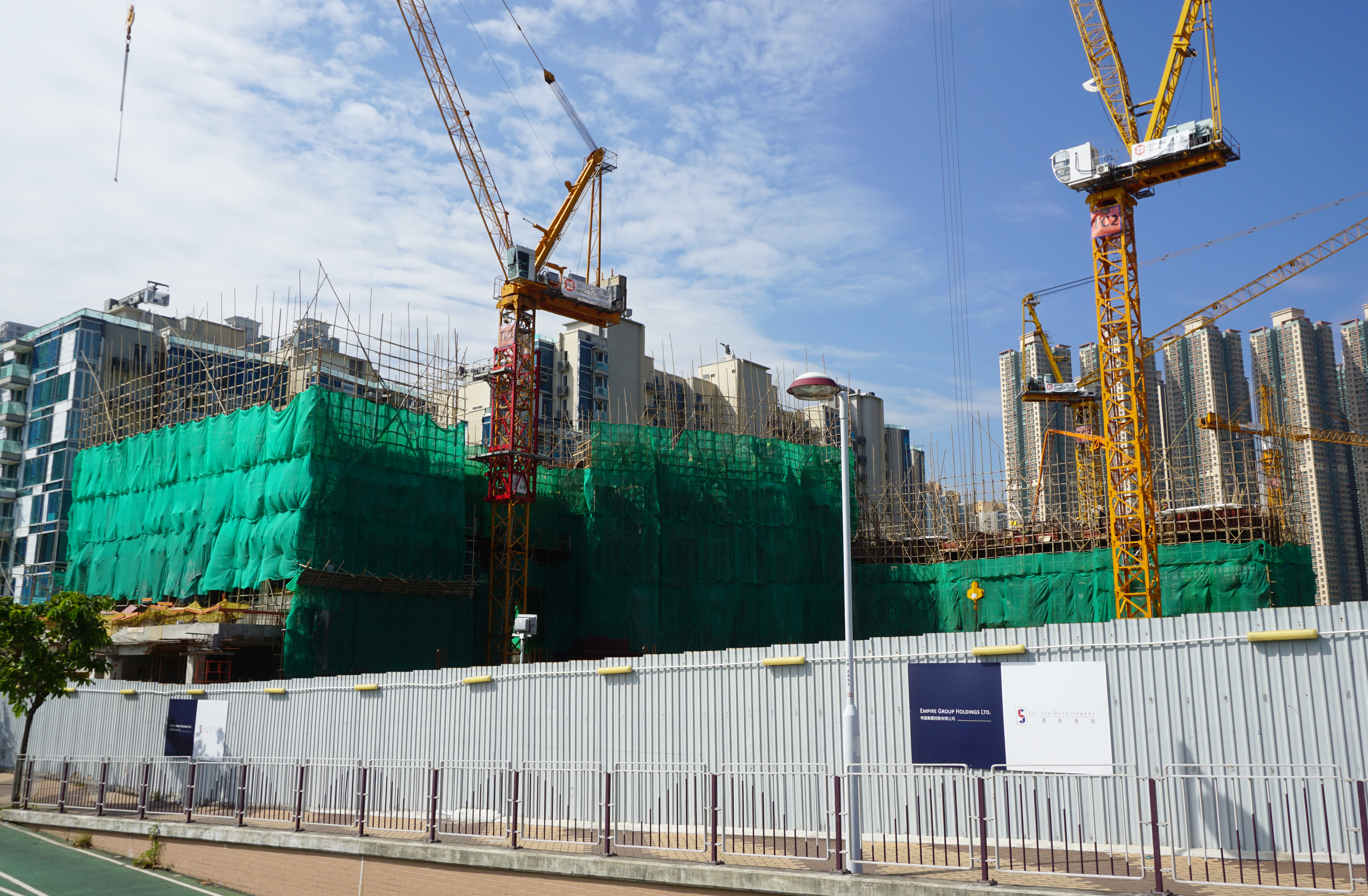 Alto Residences in Tseung Kwan O, Hong Kong.